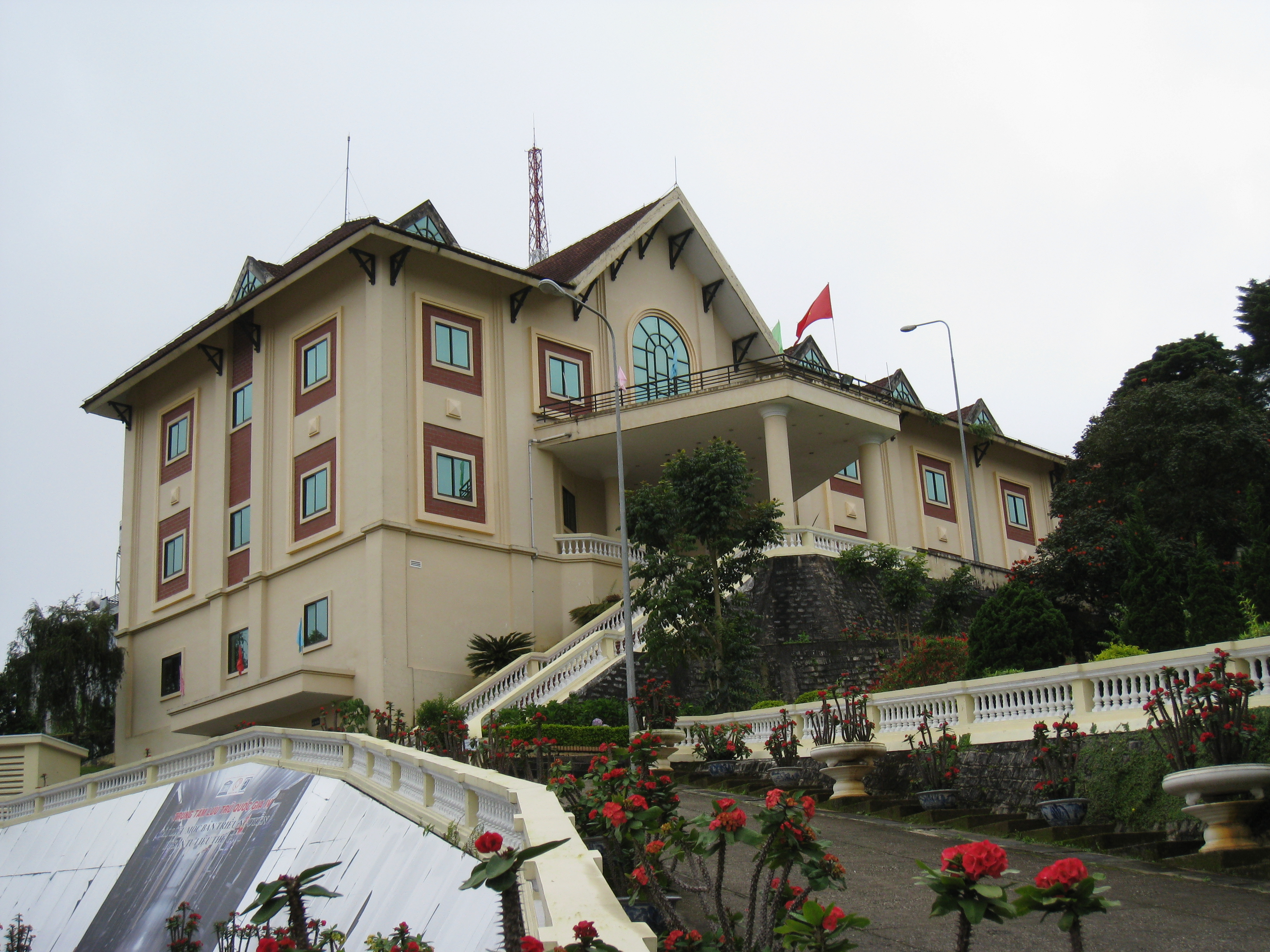 Tran Le Xuan Castle 1